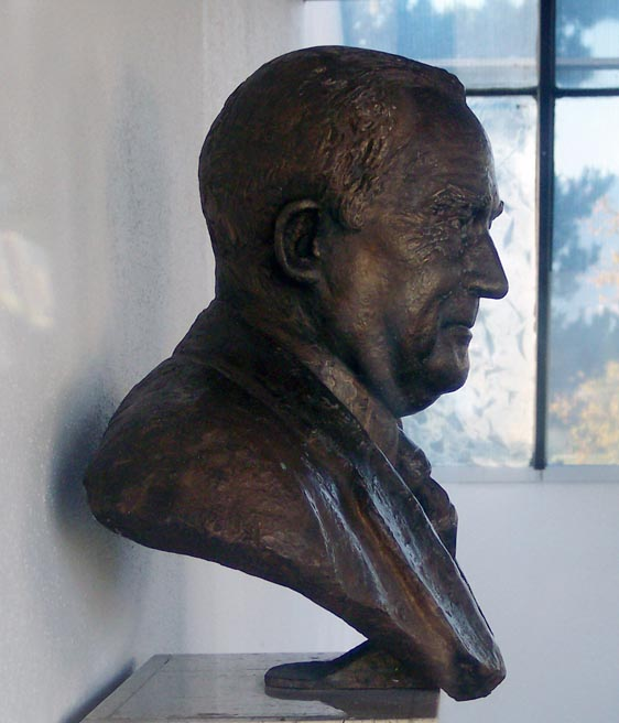 Major Mathews bust, Vancouver Archives, 2006.